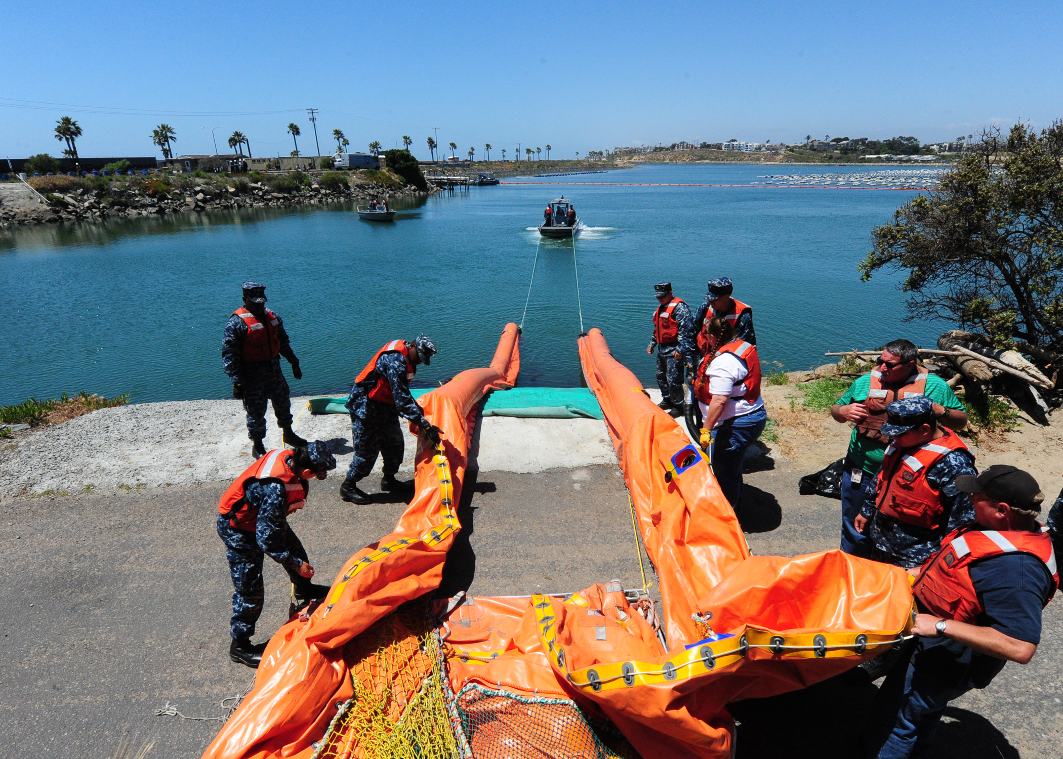 OCEANSIDE, Calif. (May 10, 2011) Sailors assigned to port operations at Naval Base San Diego deploy a high-speed oil containment system during the demonstration portion of a three-day triennial San Diego Preparedness for Response Program (PREP) exercise, which is being conducted to improve the effectiveness of the San Diego Area Contingency Plan (ACP). The completion of the PREP exercise satisfies all Oil Pollution Act of 1990 mandates and enhances interagency cooperation and provides a unified directed response to major oil spills. (U.S. Navy photo by Mass Communication Specialist 1st Class Michael O'Day/Released)